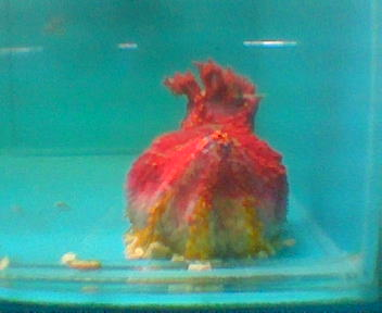 A sea apple, Paracucumaria tricolor being sold at a pet store in the Philippines. This specimen is clearly stressed and will probably not last long in its poorly-designed holding tank. The photograph was taken at the Cartimar Shopping Center in Pasay City, Metro Manila.